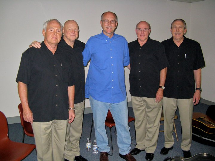 The Texican doo wop band called The Slades with Joe Conroy (Dj Brad) from doo wop café. The picture was taken at the doo wop festival celebrated at the Benedum Center in Pittsburgh, Pennsylvania in May 2010.